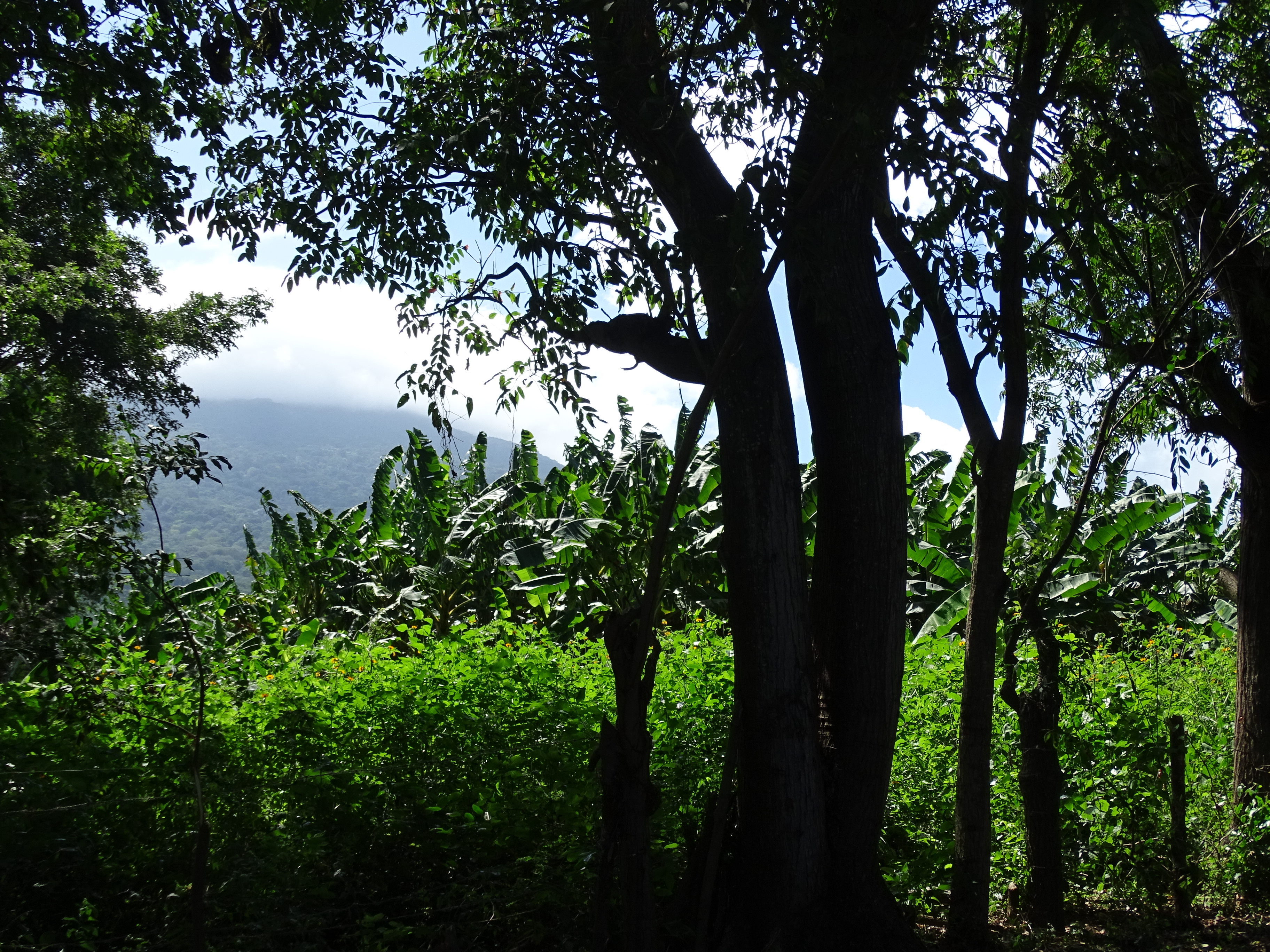 Roadside View with Plantain Plantation - Butterflies in Garden - Balgue - Ometepe Island - Nicaragua